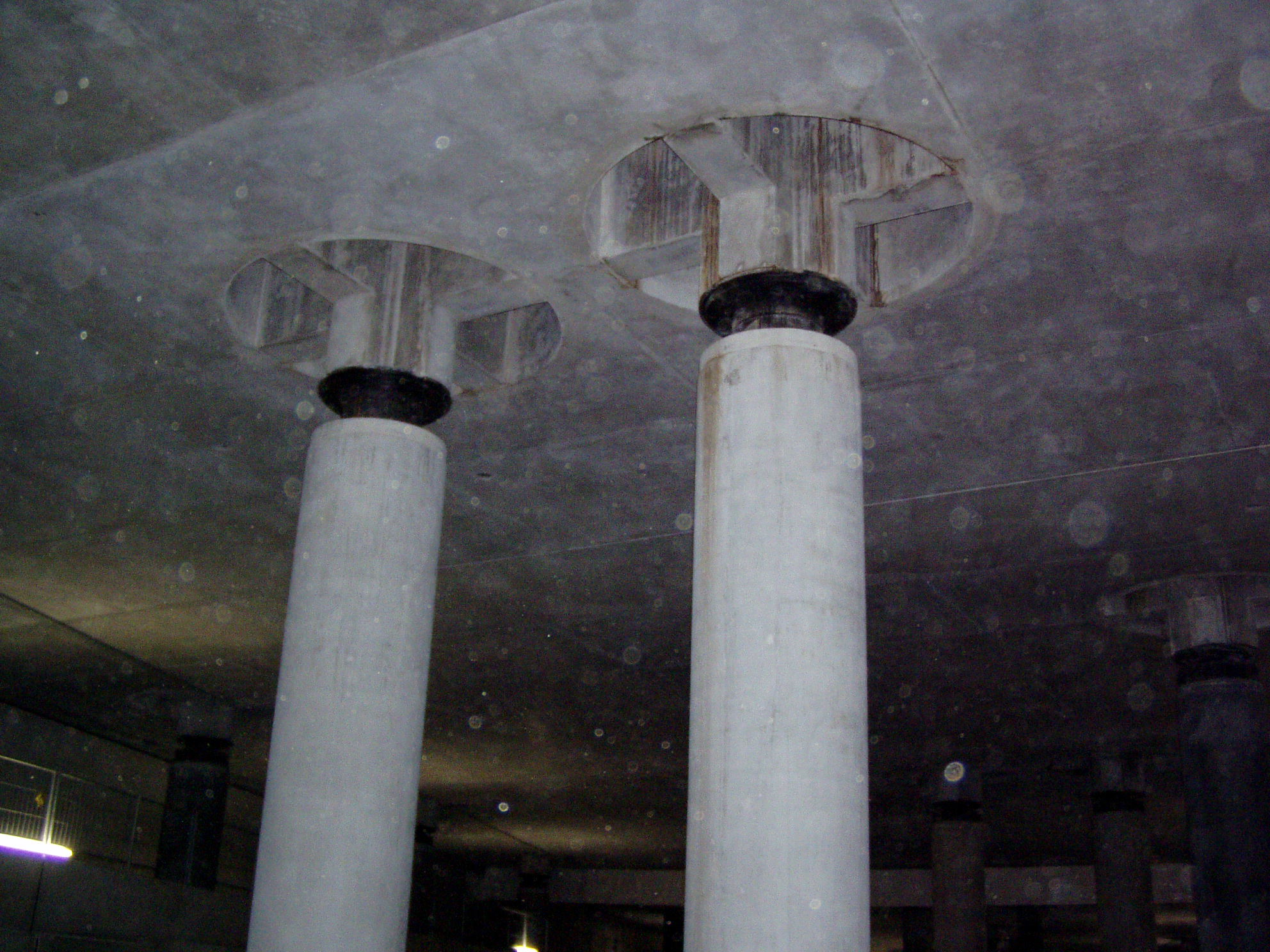 Columns at Berlin's underground station Bundestag before its opening; Berlin, Germany